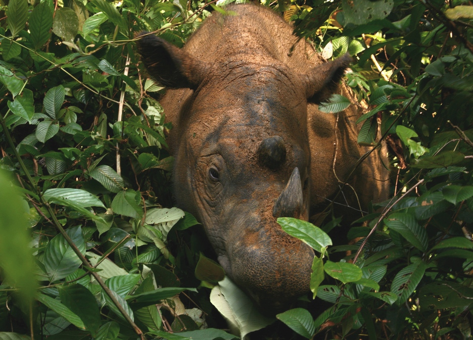 Sumatran Rhinoceros (Dicerorhinus sumatrensis sumatrensis) Rosa in the Sumatran Rhino Sanctuary, Way Kambas, Sumatra, Indonesia